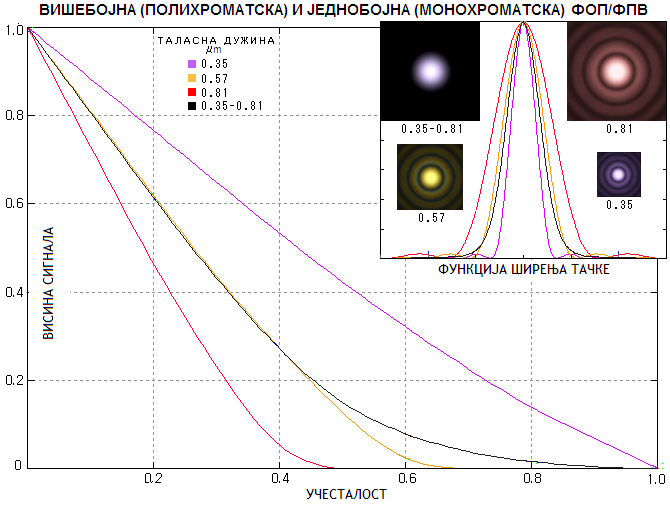 ВИШЕБОЈНА (ПОЛИХРОМАТСКА) И ЈЕДНОБОЈНЕ (МОНОХРОМАТСКЕ) ФОП/ФПВ